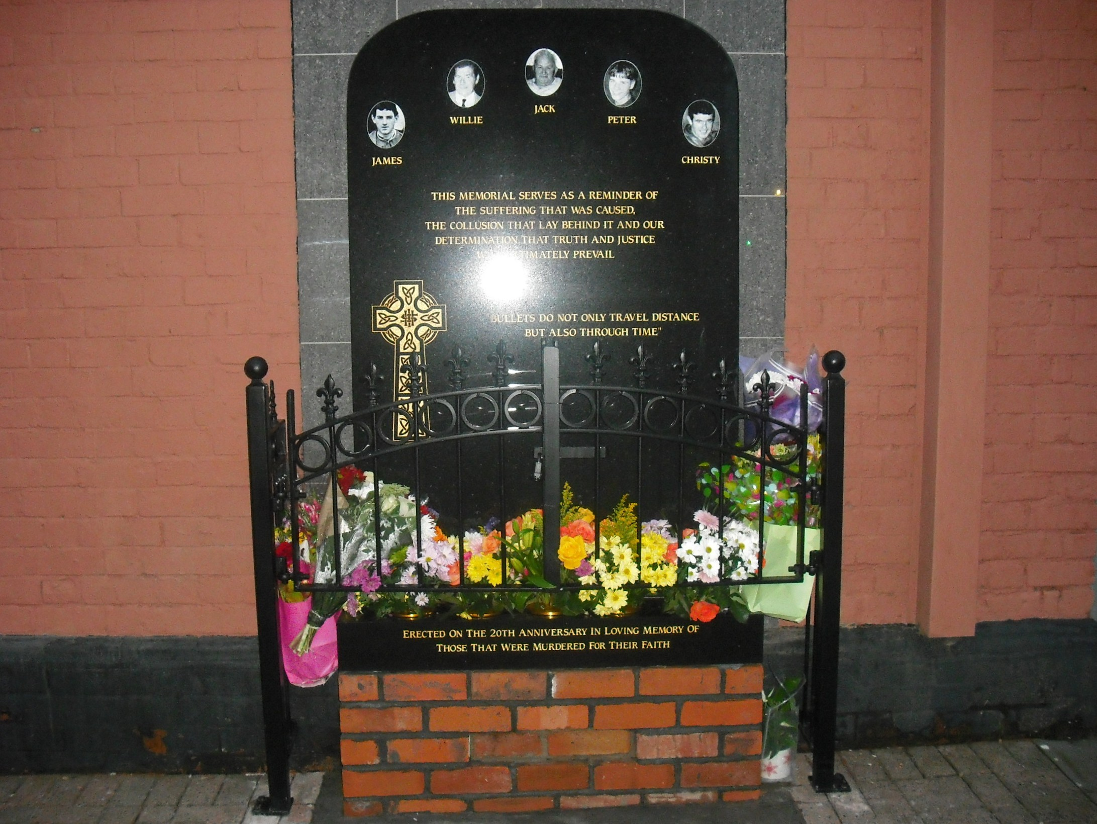 Memorial showing those killed in the Sean Graham shooting, Hatfield Street, Belfast